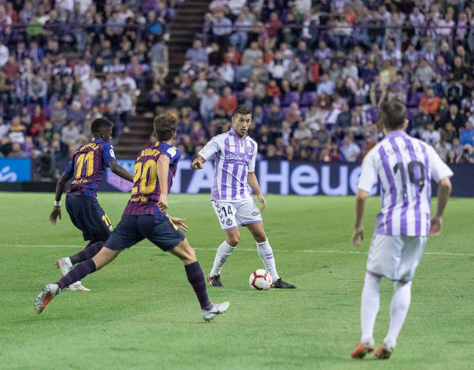 Real Valladolid - F. C. Barcelona, 2nd fixture of the 2018-19 La Liga, August 25, 2018.